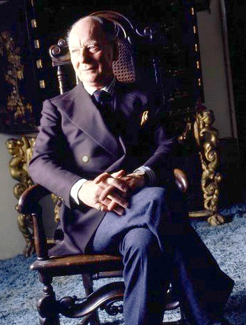 Sir John Gielgud taken in photographers studio Belgravia.